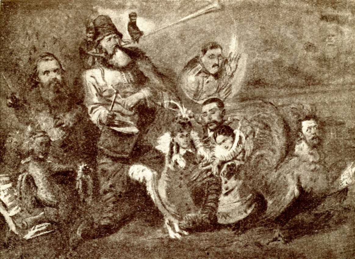 Mighty Handful, by Russian painter Konstantin Makovsky (1871)